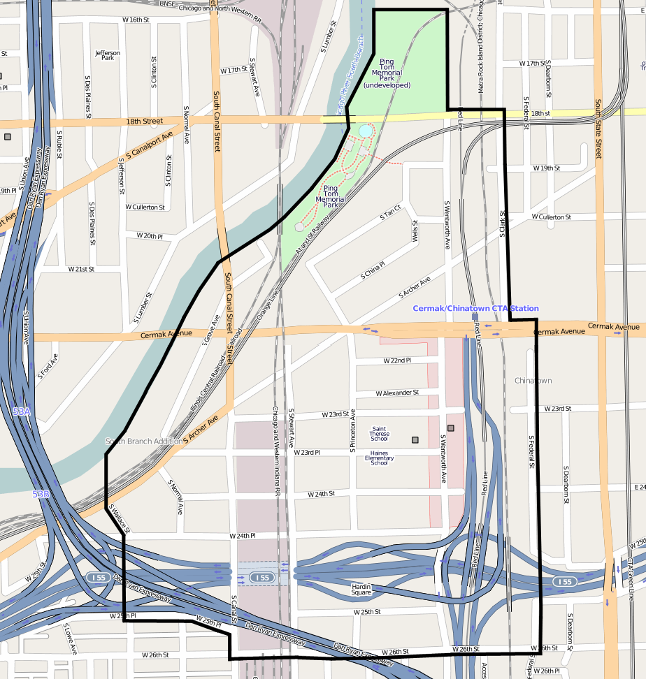 Chinatown (Chicago) This map may be incomplete, and may contain errors. Don't rely solely on it for navigation.